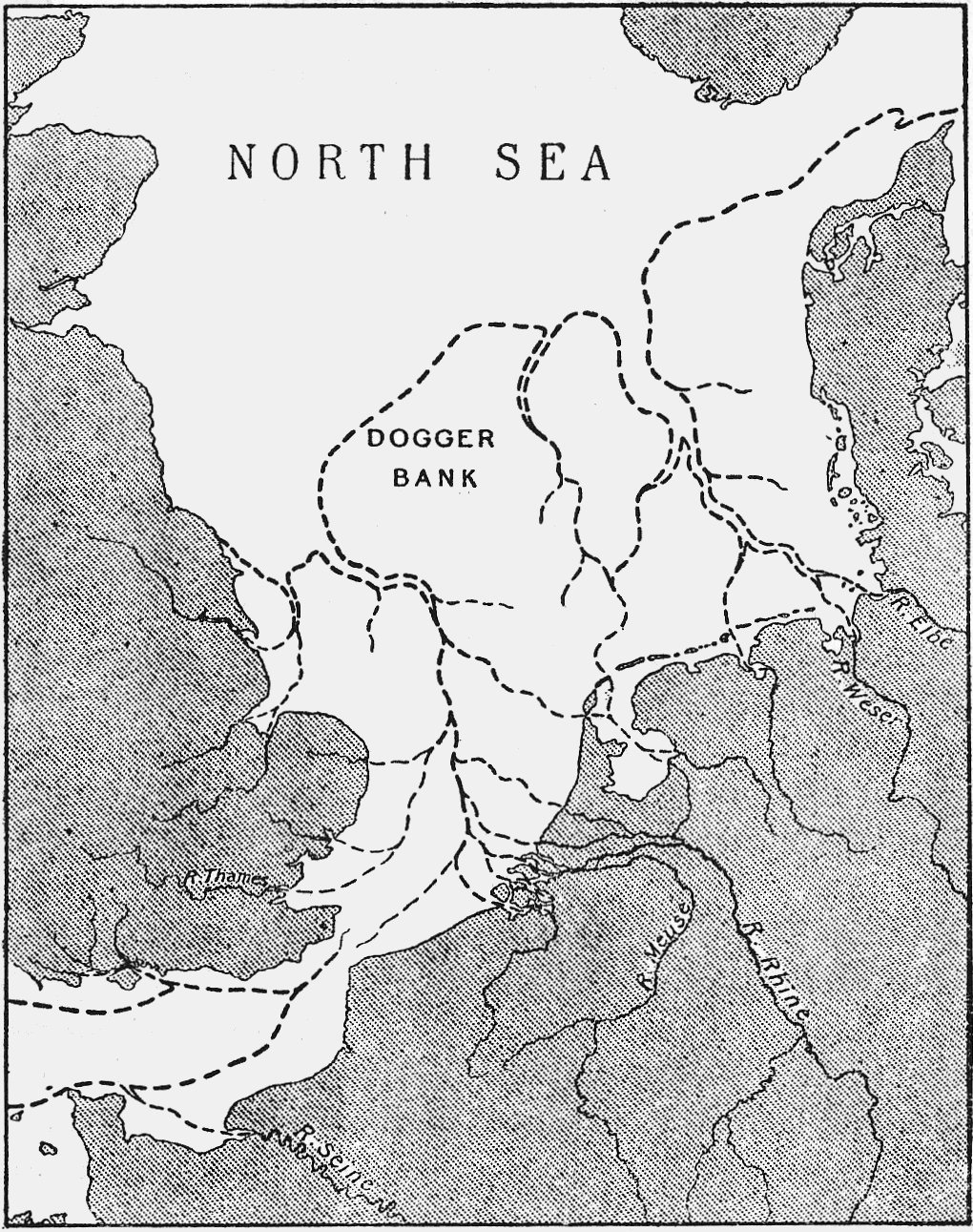 Map of Doggersbank, North Sea, "showing approximate Coast-line at the period of the lowest Submerged Forest"